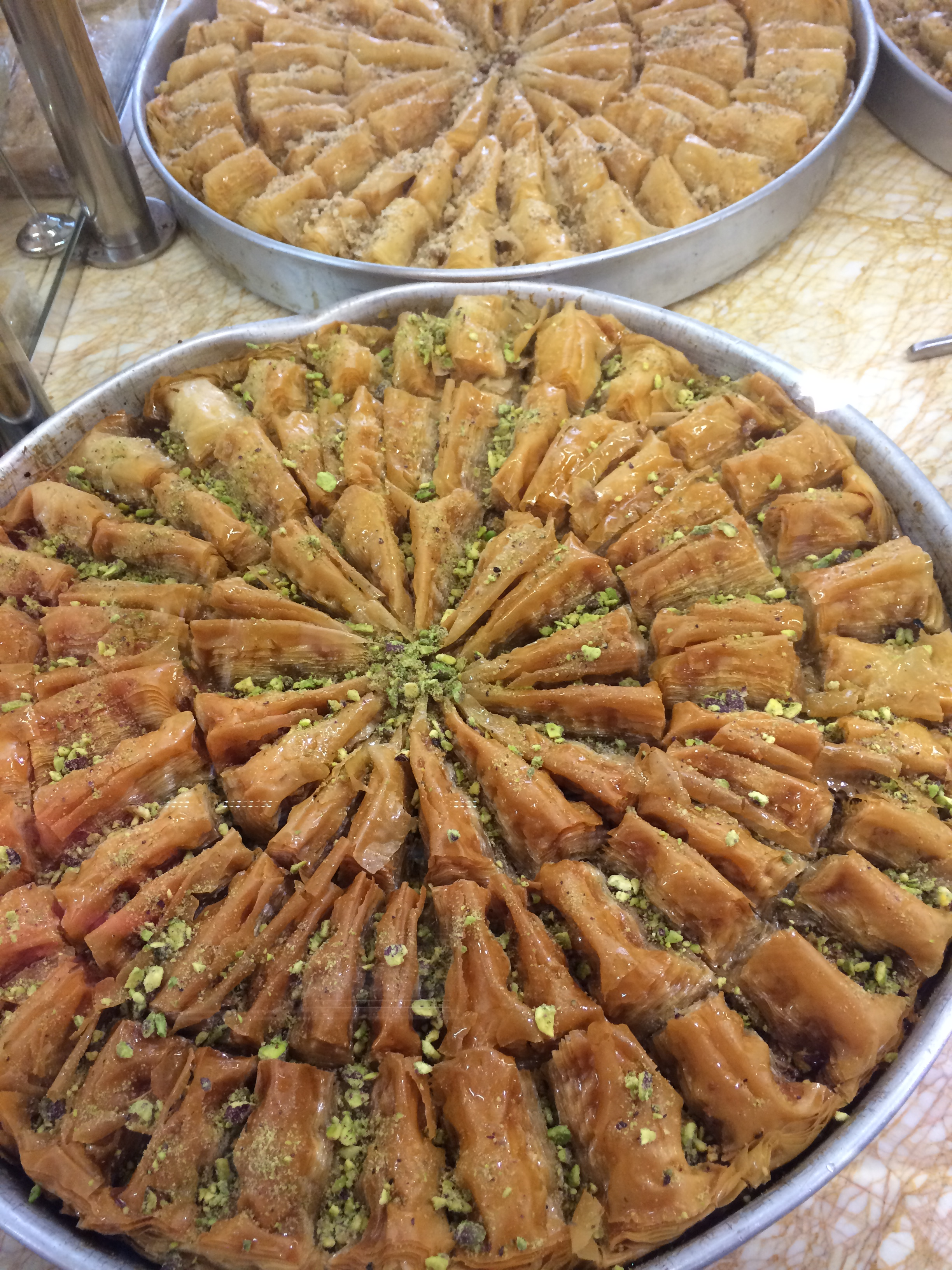 Baklava